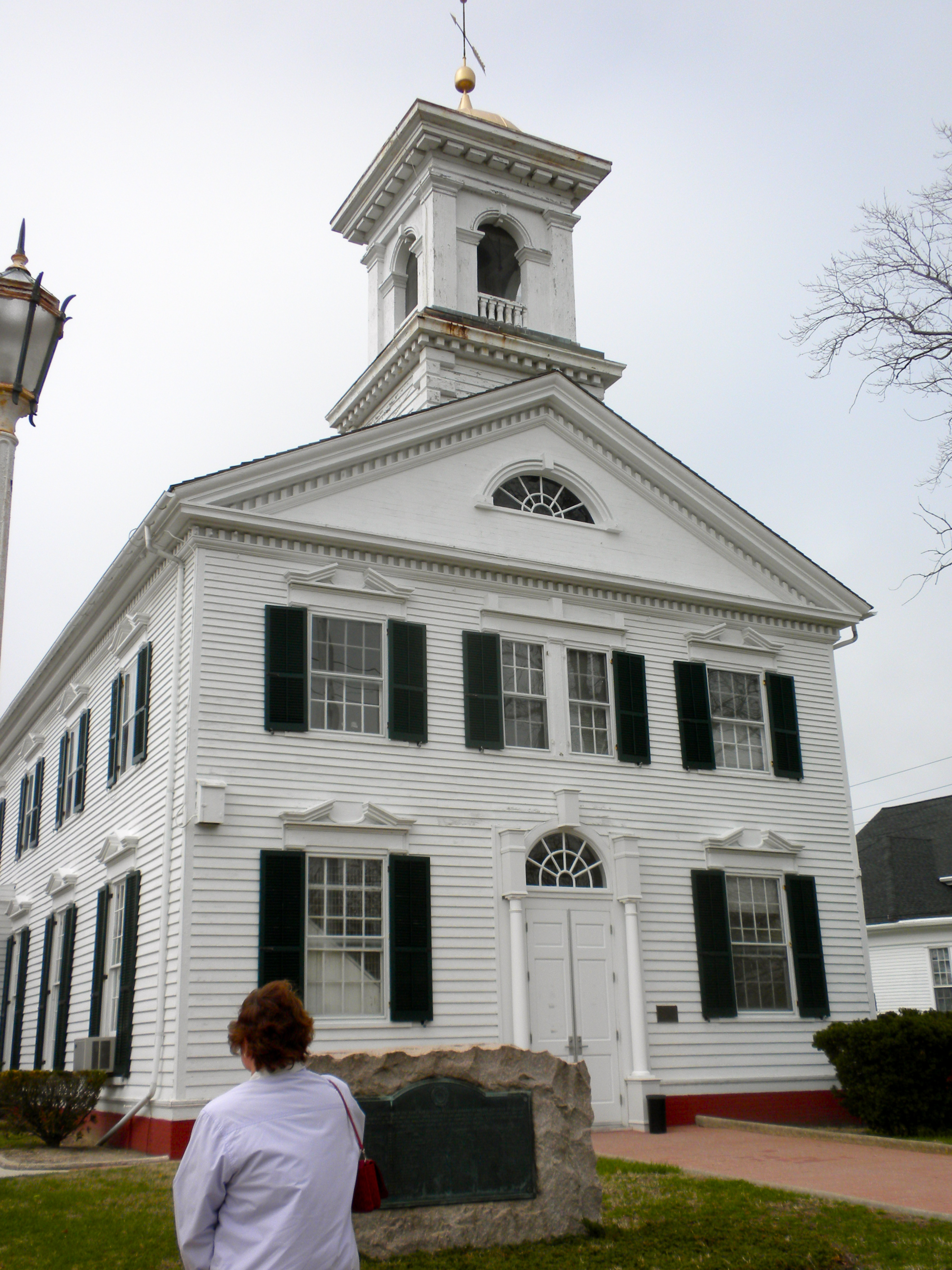 Old Cape May County Courthouse Building on the NRHP since December 22, 1981. On N. Main St. (Shore Avenue) in the "town" (CDP) of Cape May Court House. Methodist Episcopal Church next door is also on NRHP.